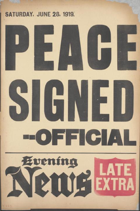 Placard for The Evening News announcing the signing of the Treaty of Versailles.